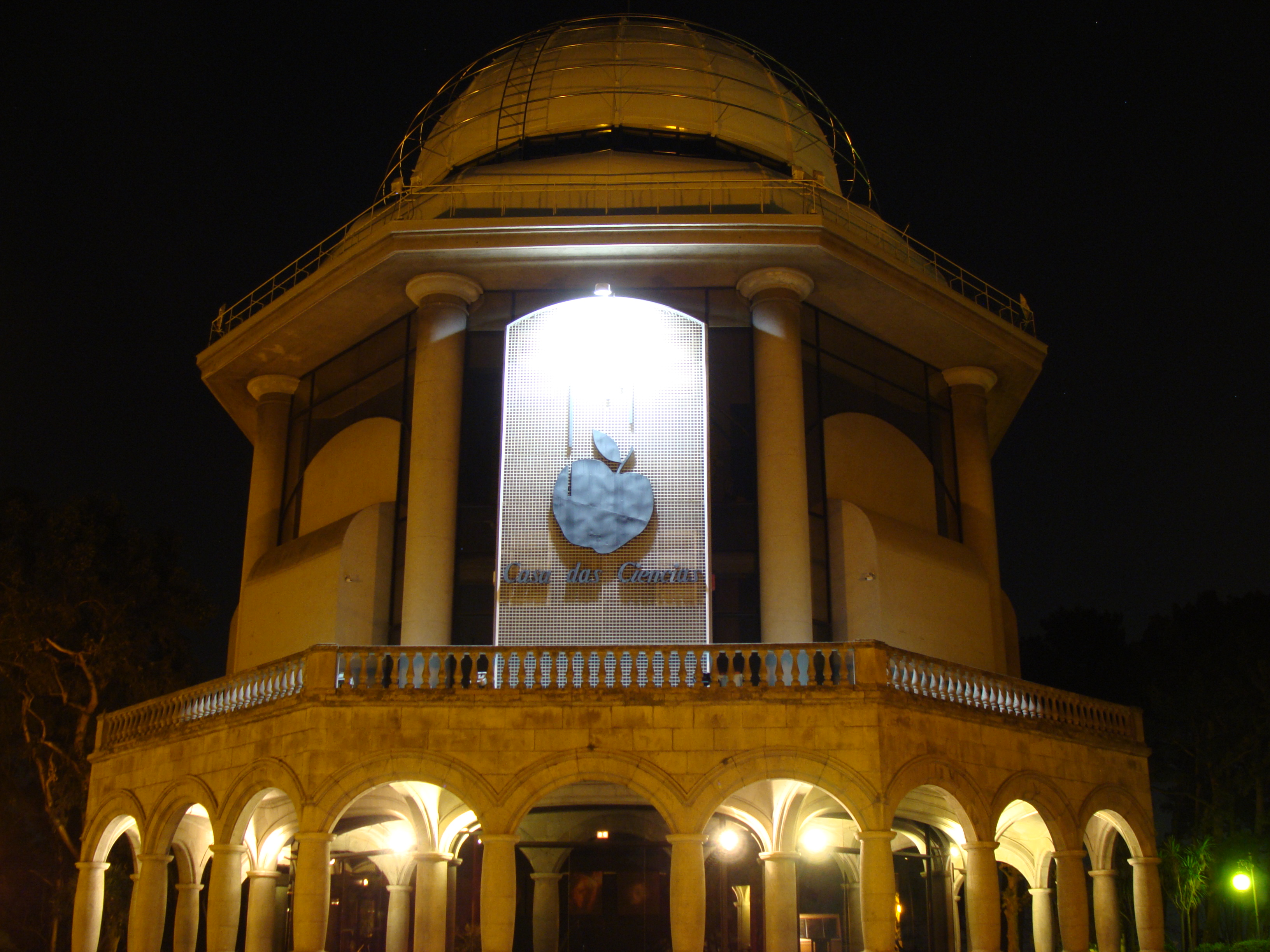 House of the Sciences of Corunna